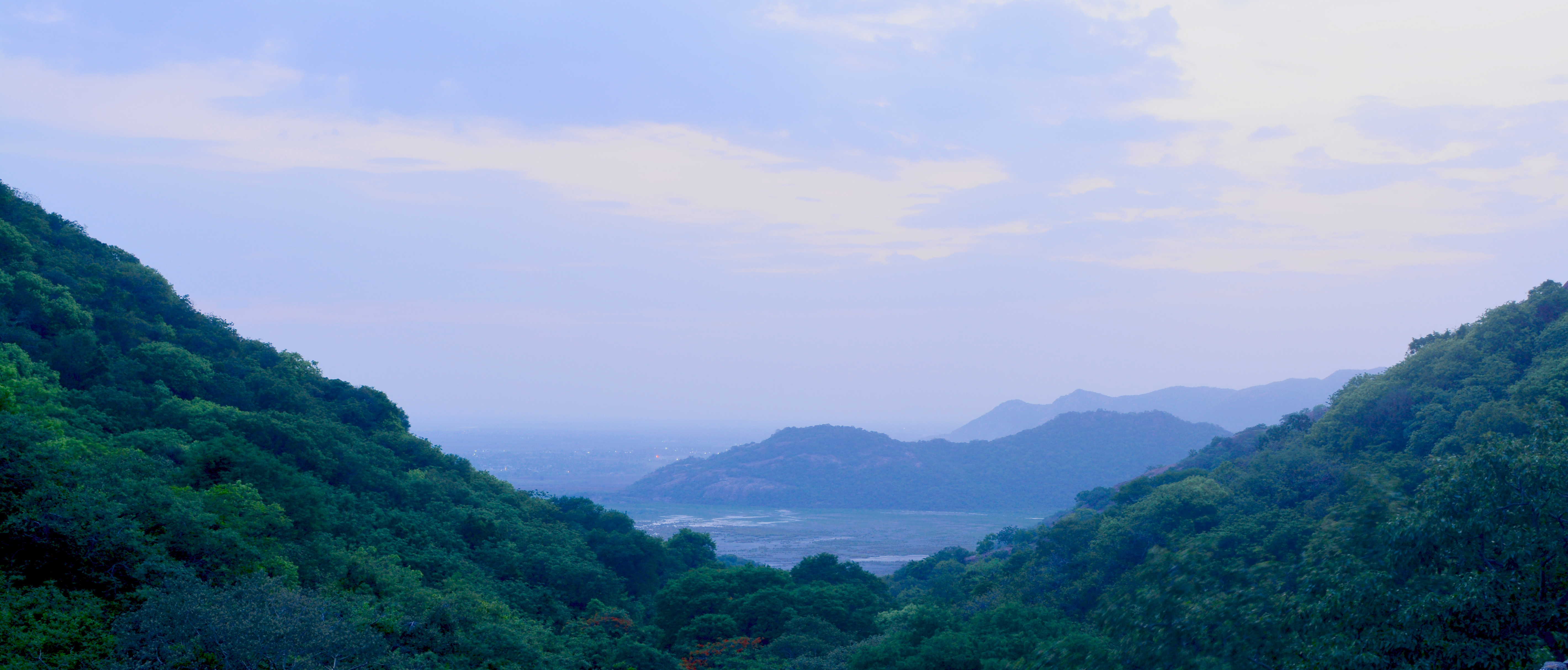 Kondapalli Reserve Forest is a reserved forest in the Krishna district of the Indian state of Andhra Pradesh. It is spread over an area of 30,000 acres.